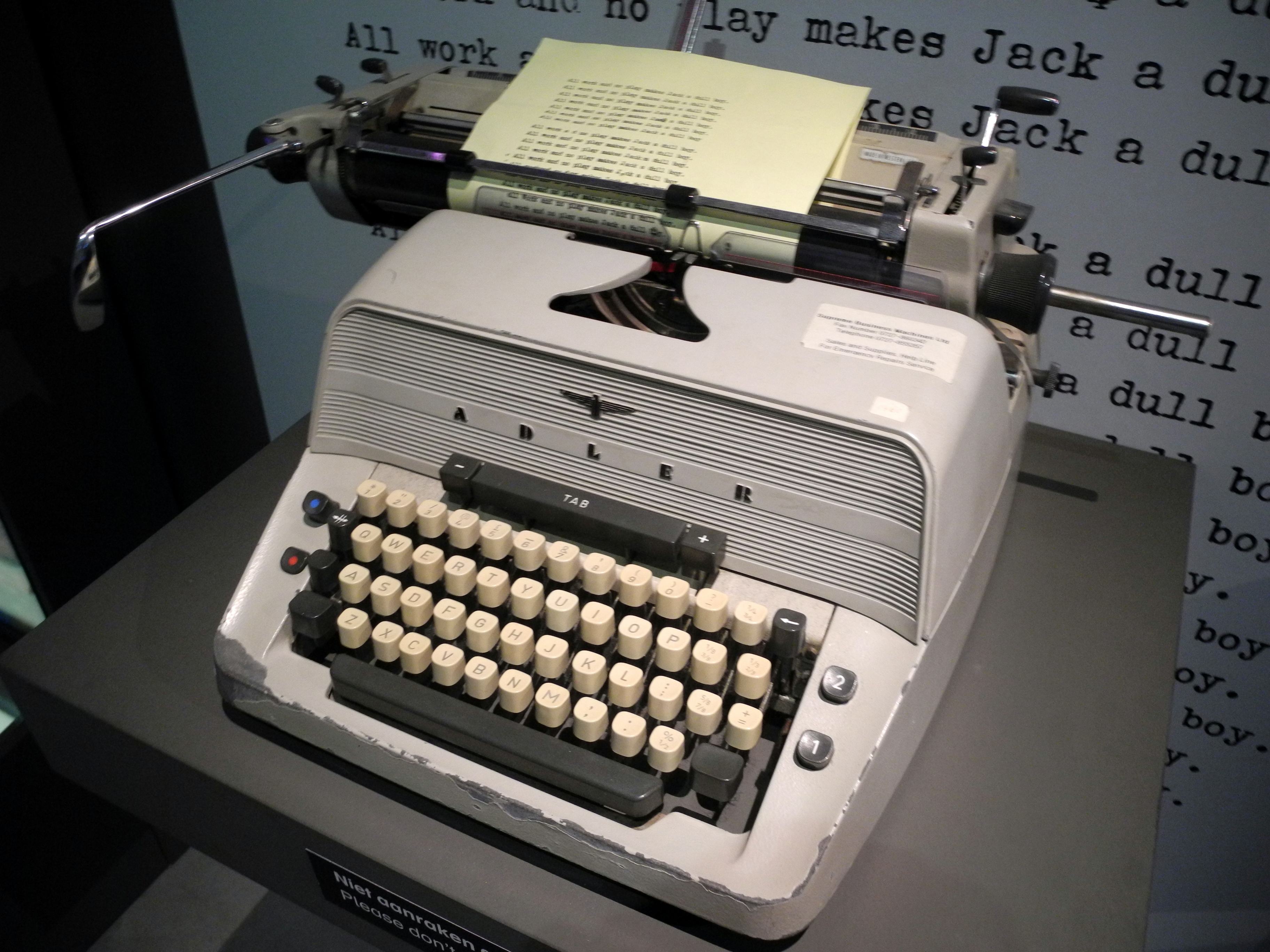 Original typewriter from Stanley Kubrick's The Shining.